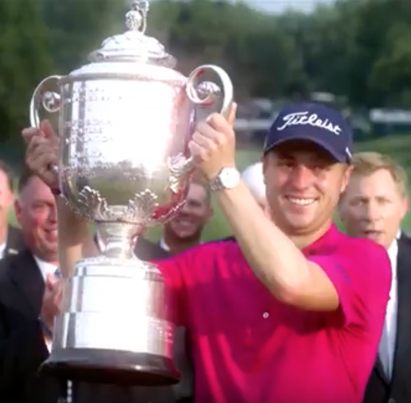 Justin Thomas (golfer) after winning the 2017 PGA Championship at Quail Hollow Club